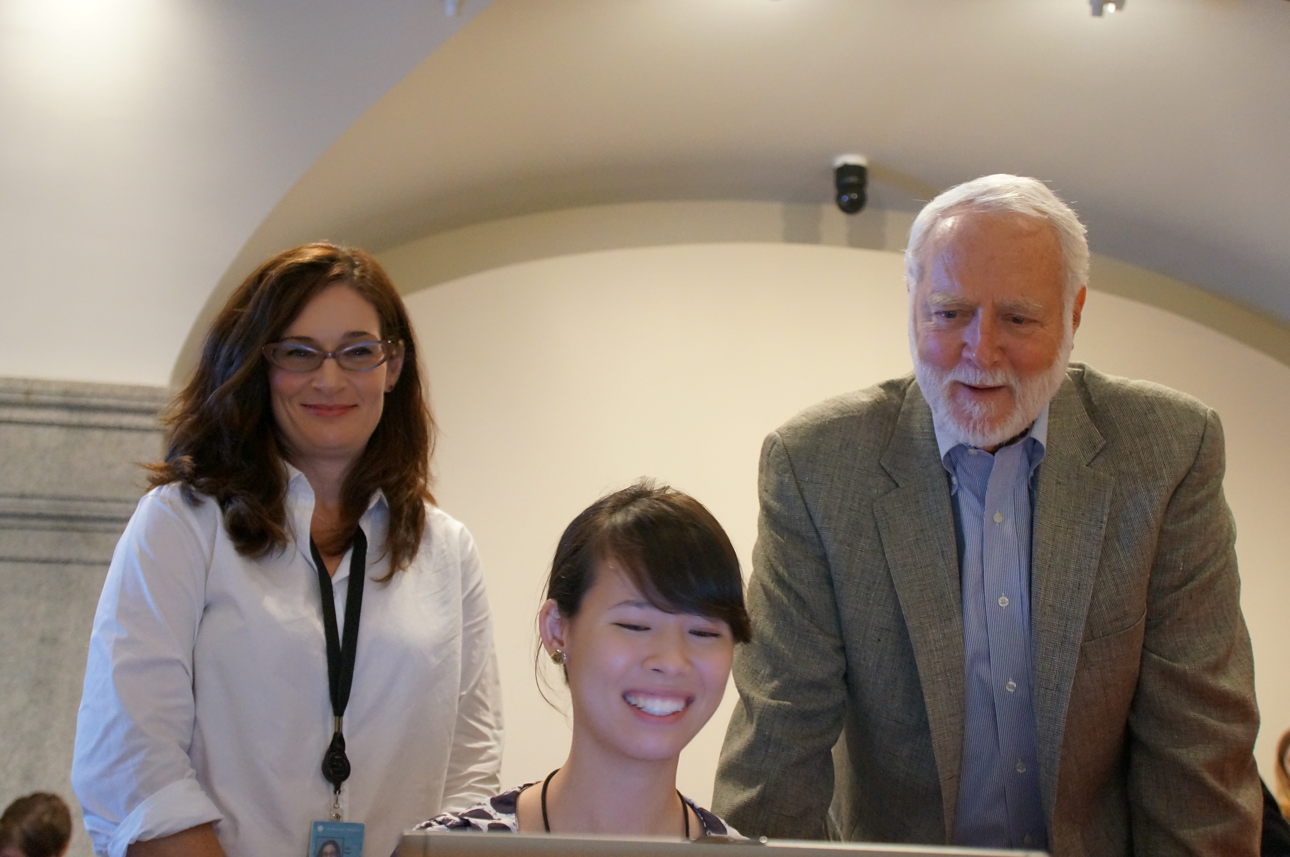 G W Clough and other Wikipedia editors at Luce and Lunder Wikimedia DC edit-a-thon